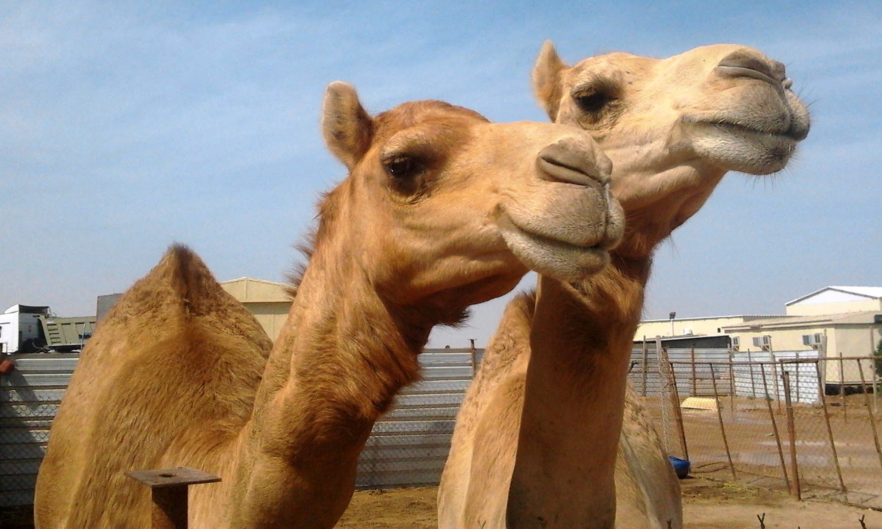 Camels in a small farm